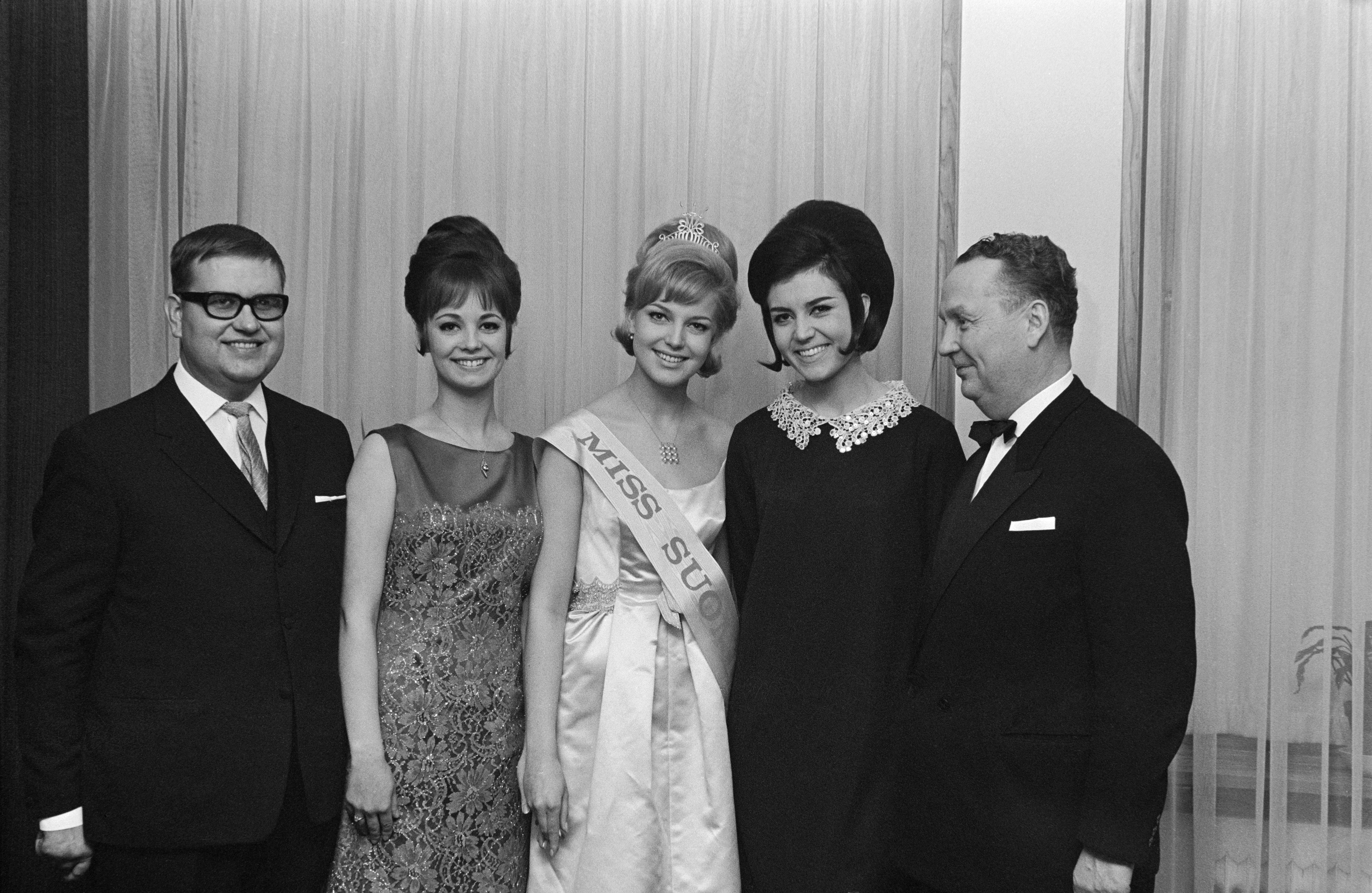 Miss Finland beauty pageants in 1965: Virpi Miettinen is Miss Finland 1965. From left: Eino Makunen, II runner-up Esti Östring, Miss Finland 1965 Virpi Miettinen, and I runner-up Raija Salminen